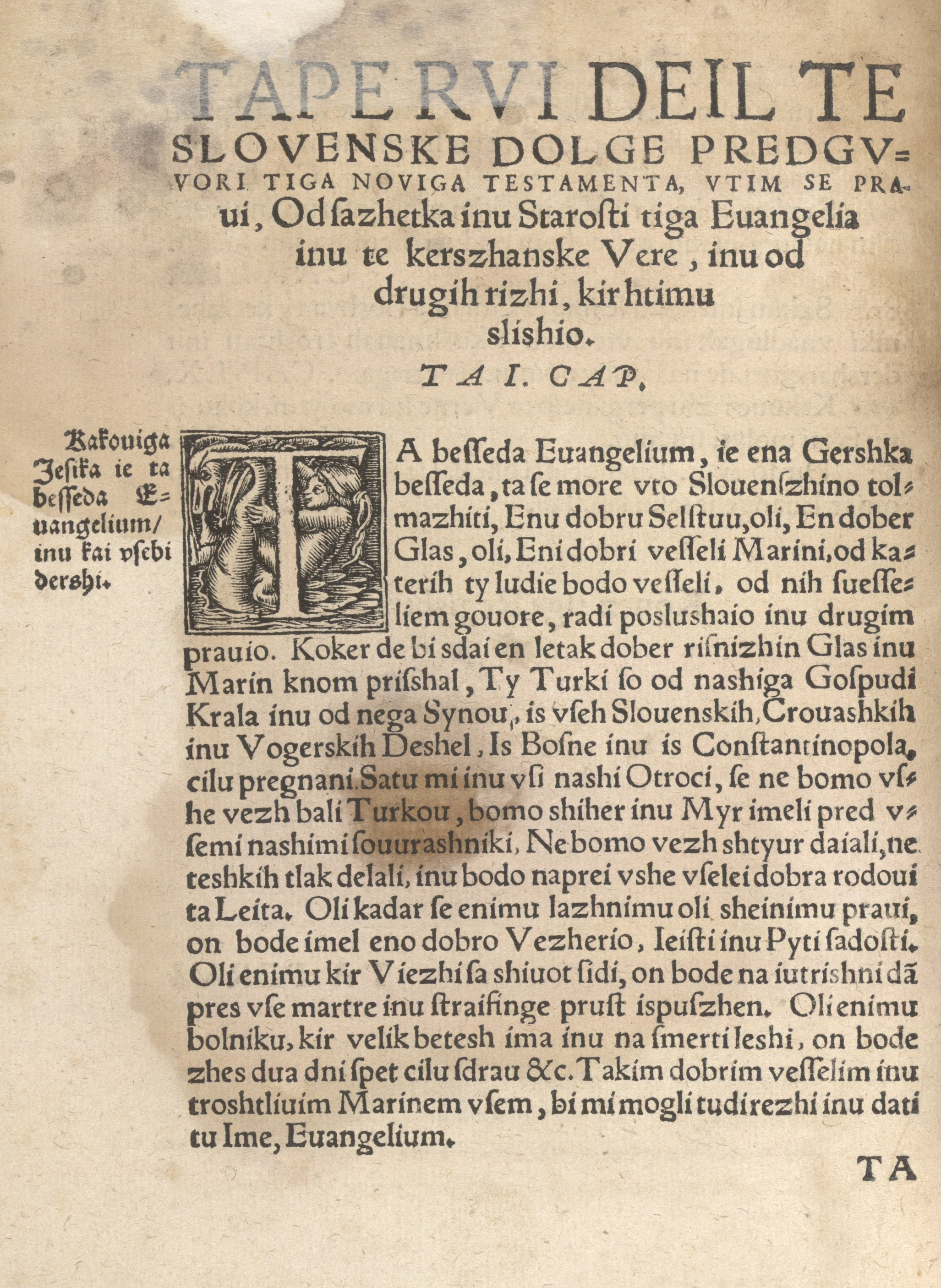 Front page of the Ta pervi deil tiga Noviga testamenta.